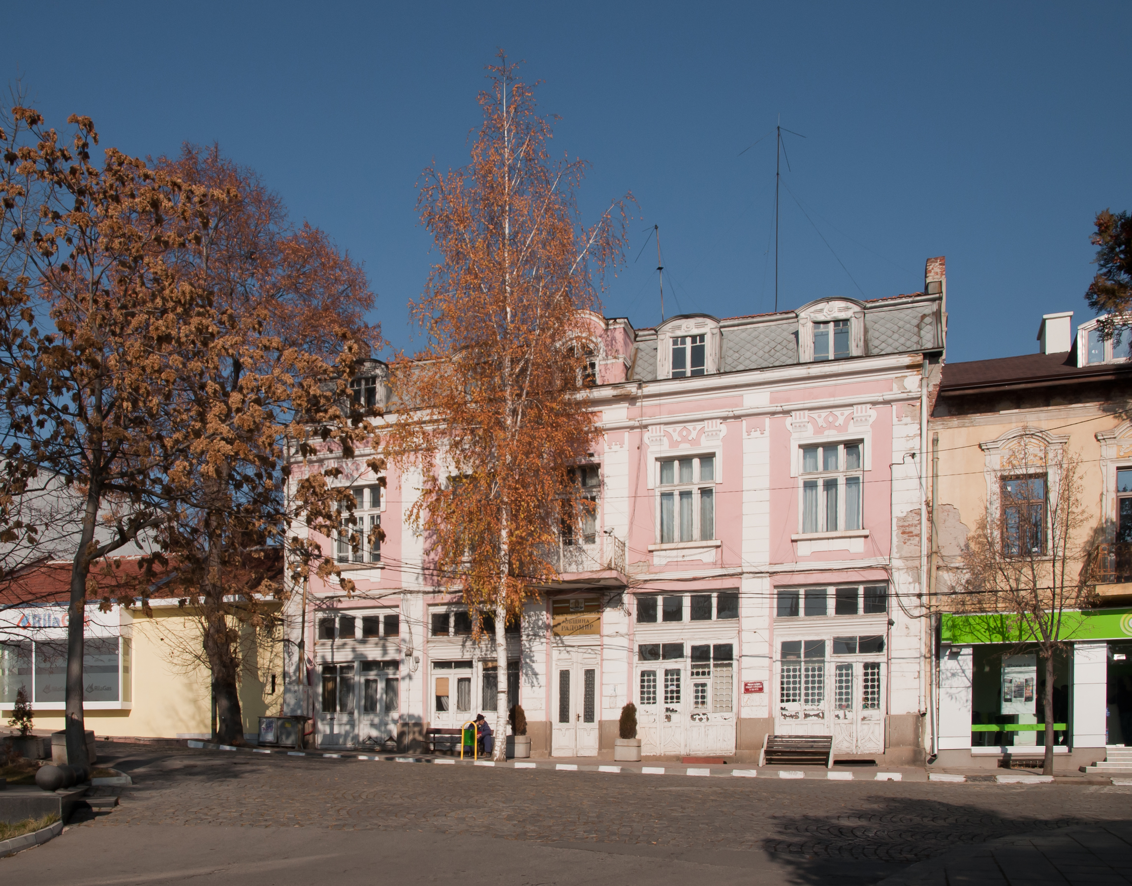 The Old Town Hall in Radomir, Bulgaria.